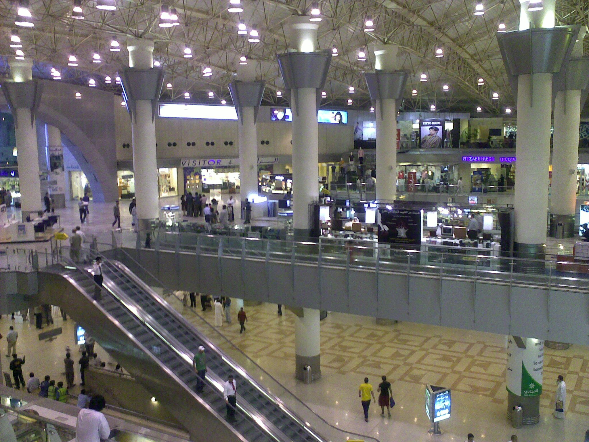 Kwait inter national airport